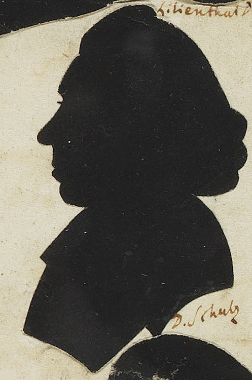 Johann Ernst Schulz (1742–1806) was German Lutheran theologian and general superintendent of Konigsberg.